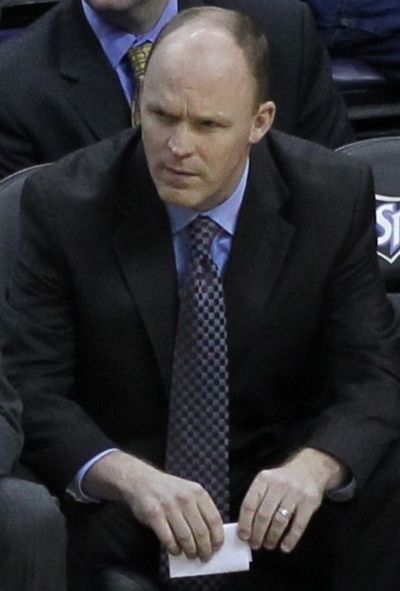 Scott Skiles as a Milwaukee Bucks assistant Coach, 2011